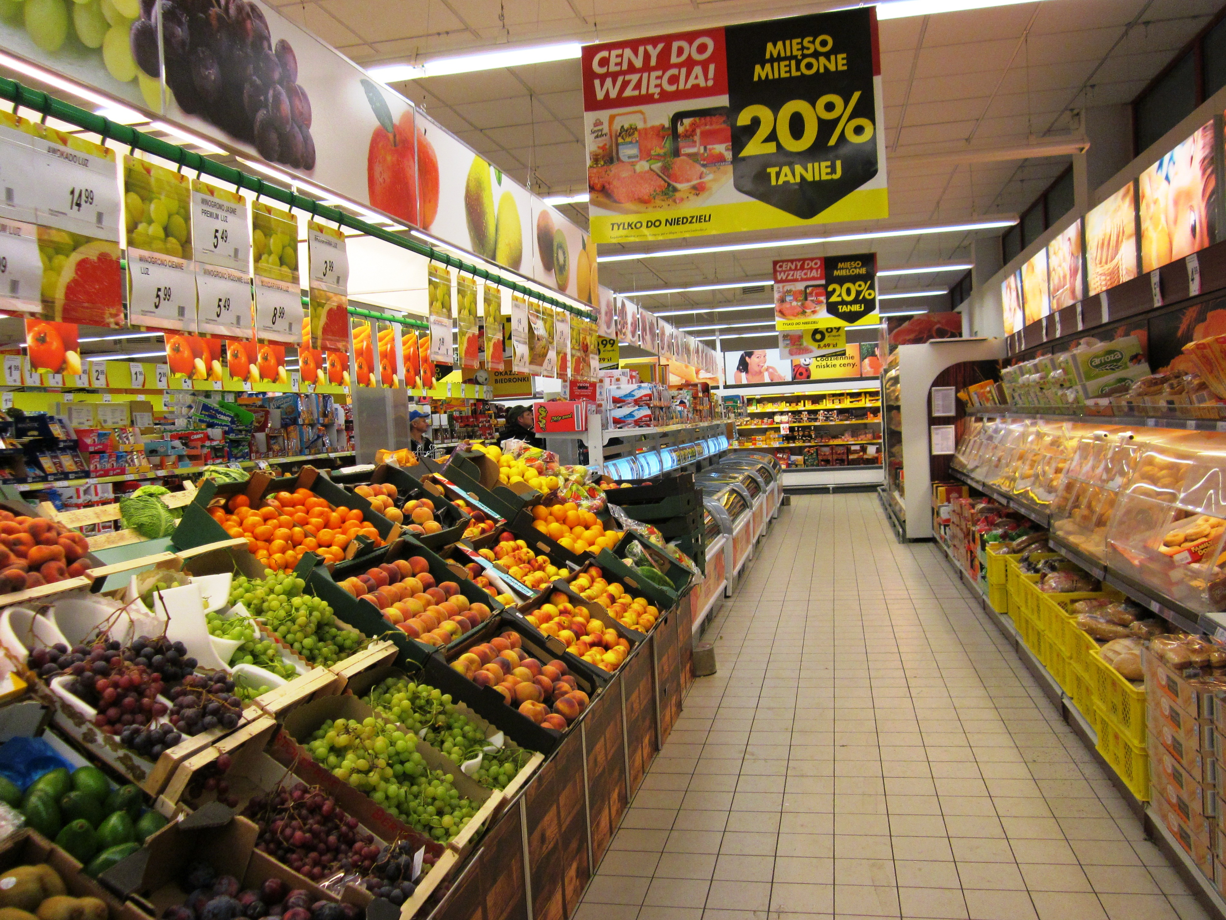 Białystok (Poland). Shopping mall interiors "Biedronka"